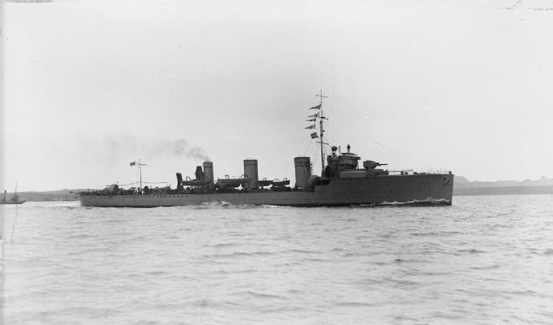 Photograph of British Beagle class destroyer HMS SCOURGE at Mudros.